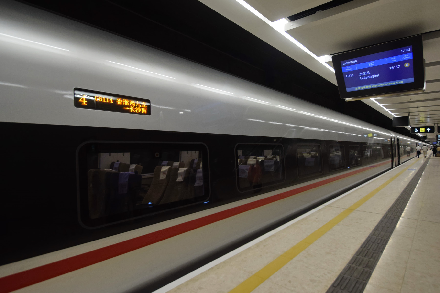 G6114 CR400AF-A-2075 EMU was stopping at Platform 4 of Hong Kong West Kowloon Station.